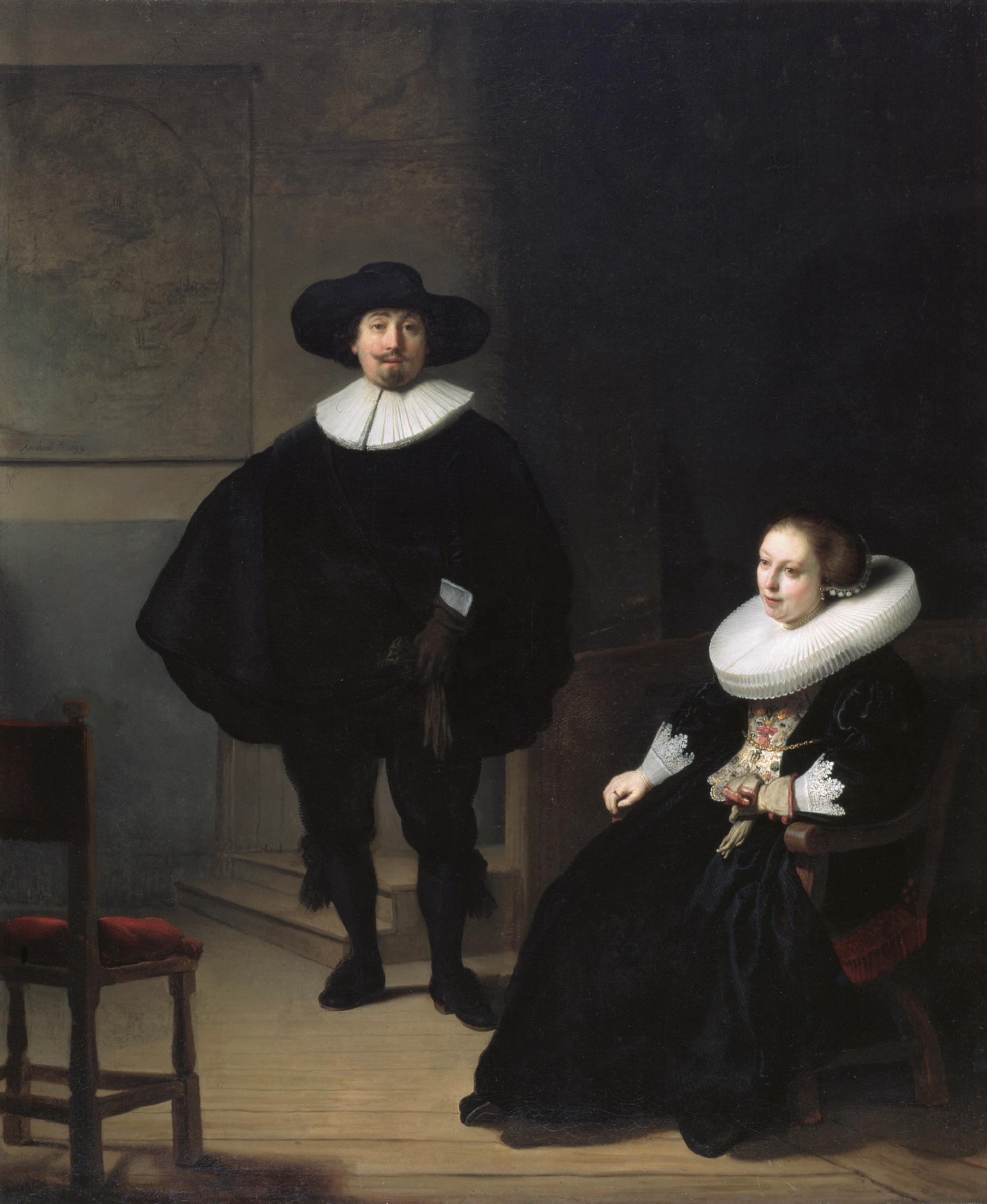 A lady and gentleman in black oil on canvas 131.6 x 109 cm inscribed b.: Rembrandt.ft: 1633